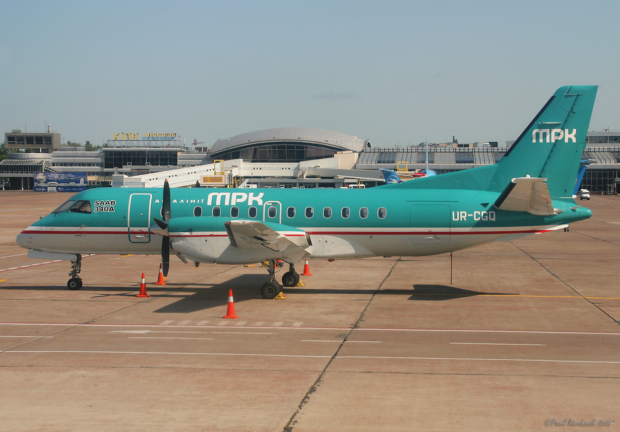 MRK Airlines Saab 340 UR-CGQ at Kiev Boryspil Airport